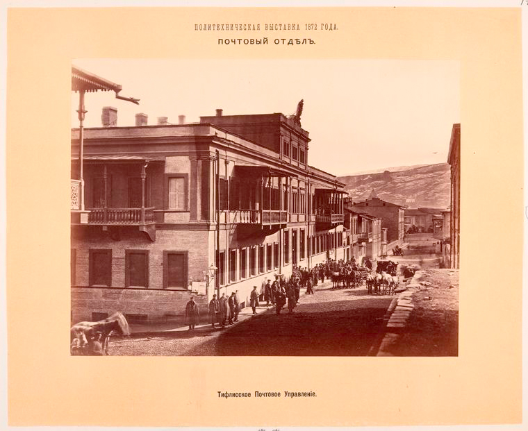 Postal Administration of Tbilisi.